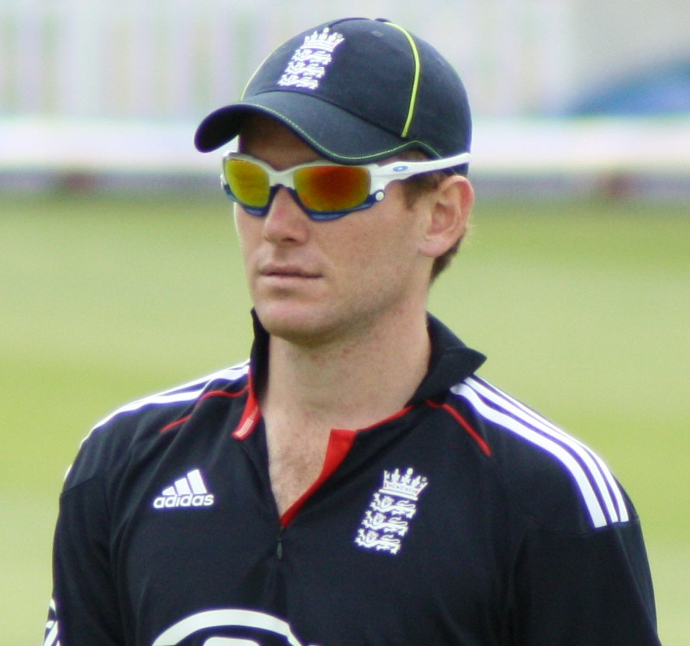 Eoin Morgan in the field during the 2nd ODI against Bangladesh at the County Ground Bristol.